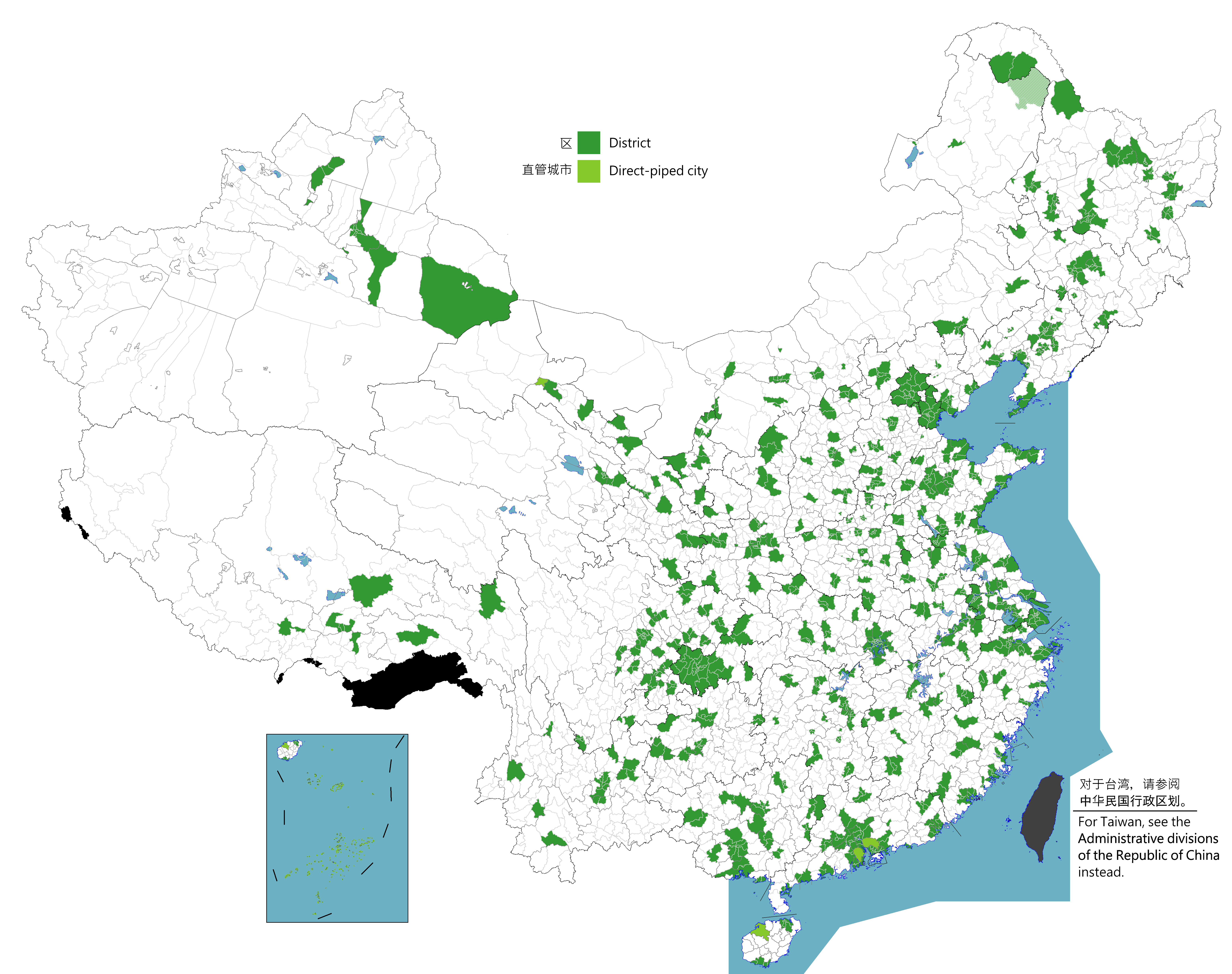 Map of China's districts, direct-piped cities, and special administrative regions